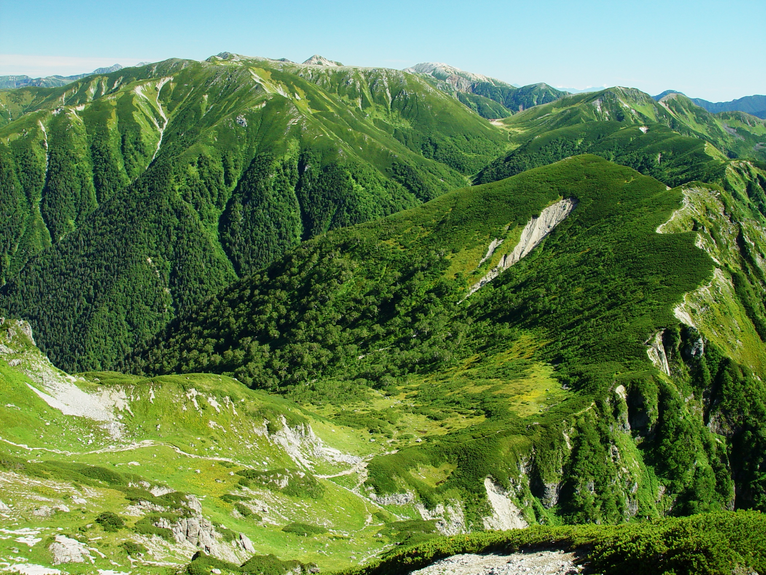 Mount Sugoroku, Mount Onoma and Mount Mitsumata from Mount Nukedo, in Hida Mountains, Japan.